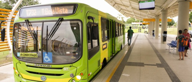 Terminal 7 Bela Vista